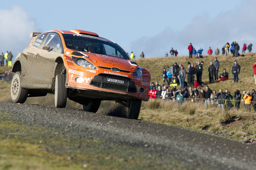 Wales Rally GB 2010 Ford Fiesta,GBR,Großbritannien,Halfway,Jari Ketomaa,Llandeilor-Fan,Llanfair-ar-y-Bryn Community,Mika Stenberg,Rally,Rallye,S2000,Shanghai FCACA Rally Team,WRC,Wales